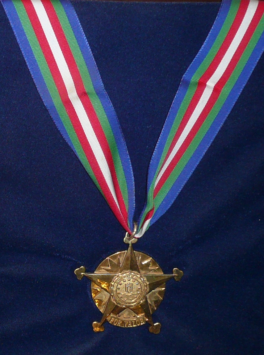 The FBI Medal of Valor. Presented to James A. McGee - special agent of Federal Bureau of Investigation United States Department of Justice. In recognition of his courageous actions on April 19, 1993, during the crisis at the Branch Davidian Compound near Waco Texas. Newseum, Washington D.C., USA